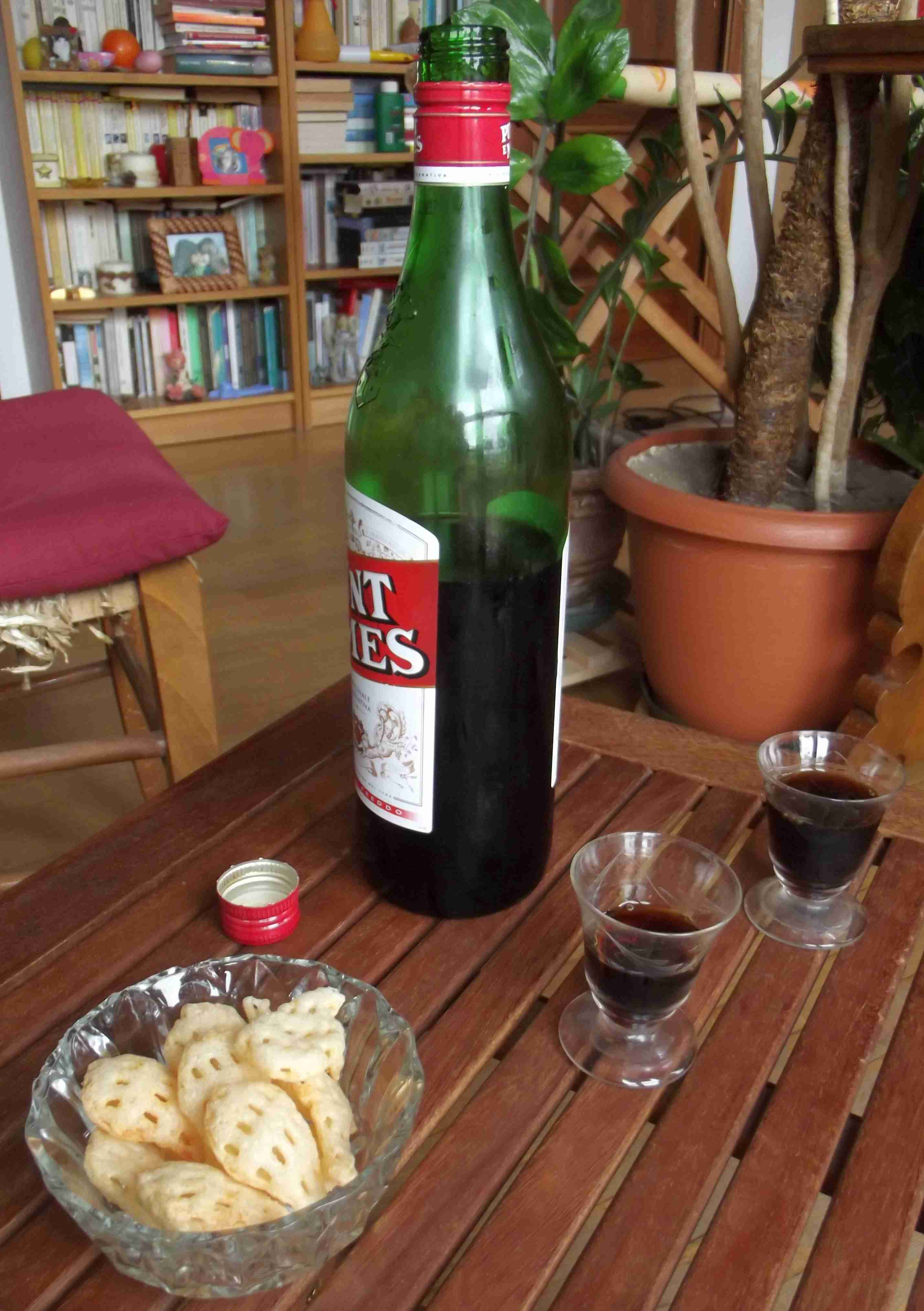 Punt e Mes (Italian vermouth)